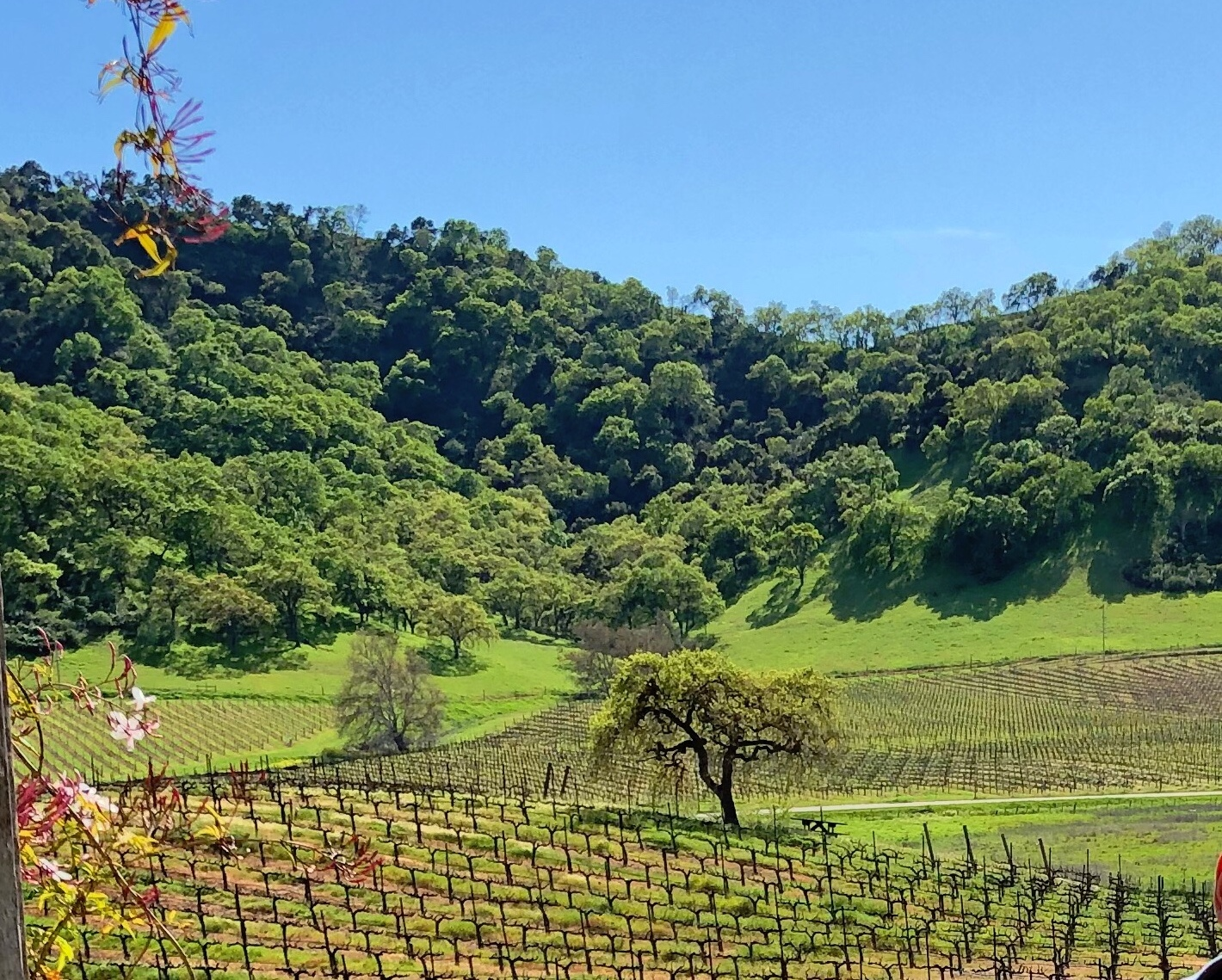 Clos la Chance Winery, Morgan Hill